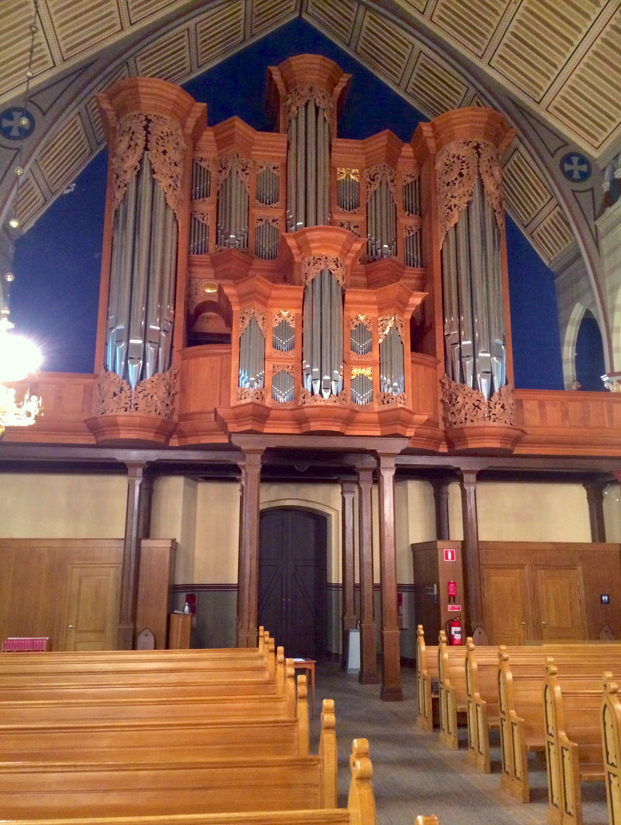 North German Baroque Organ (2000) in Örgryte nya kyrka (the New Church in the parish of Örgryte, Gothenburg, Sweden